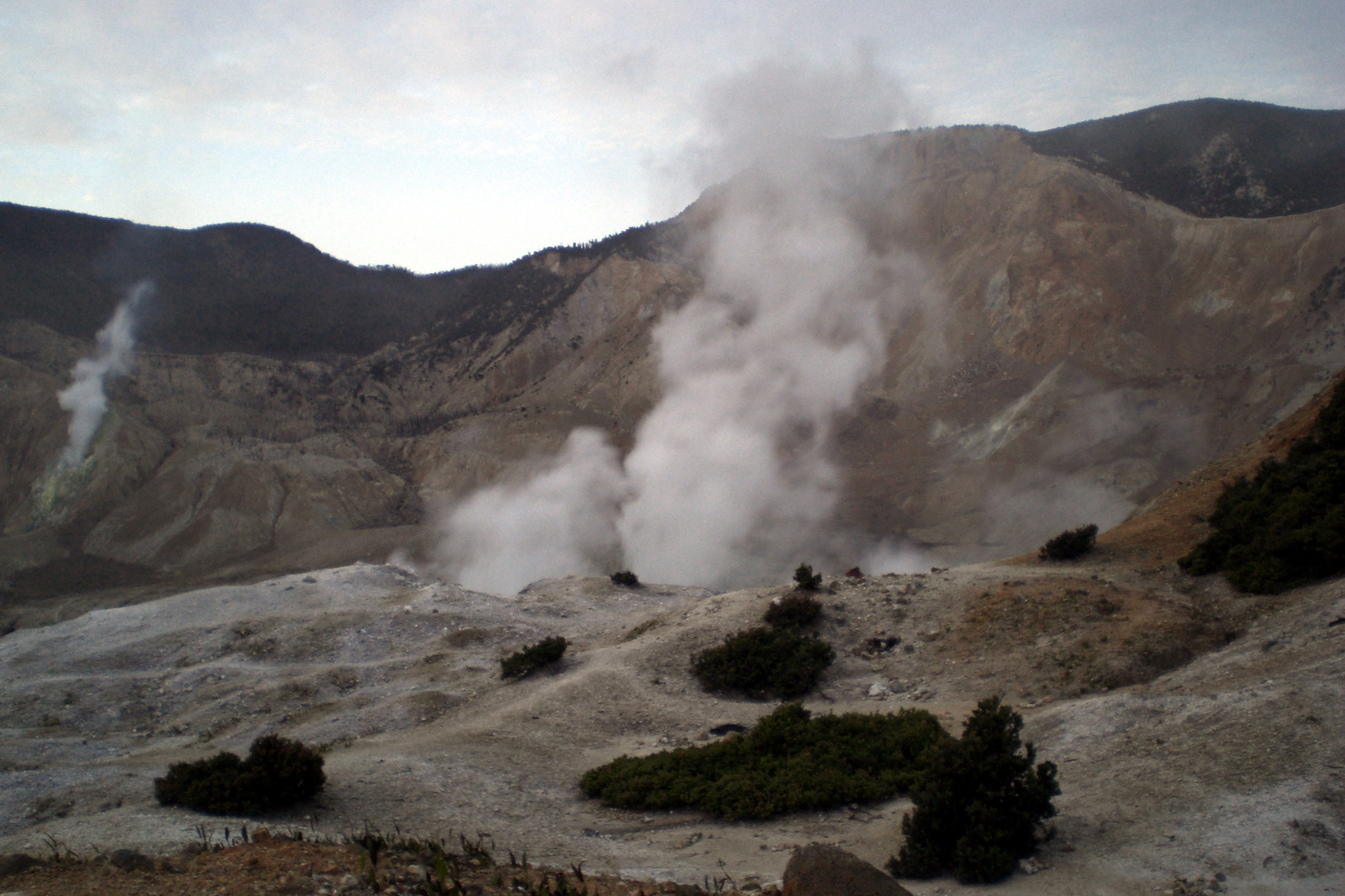 Fumeroles at Papandayan vulcano